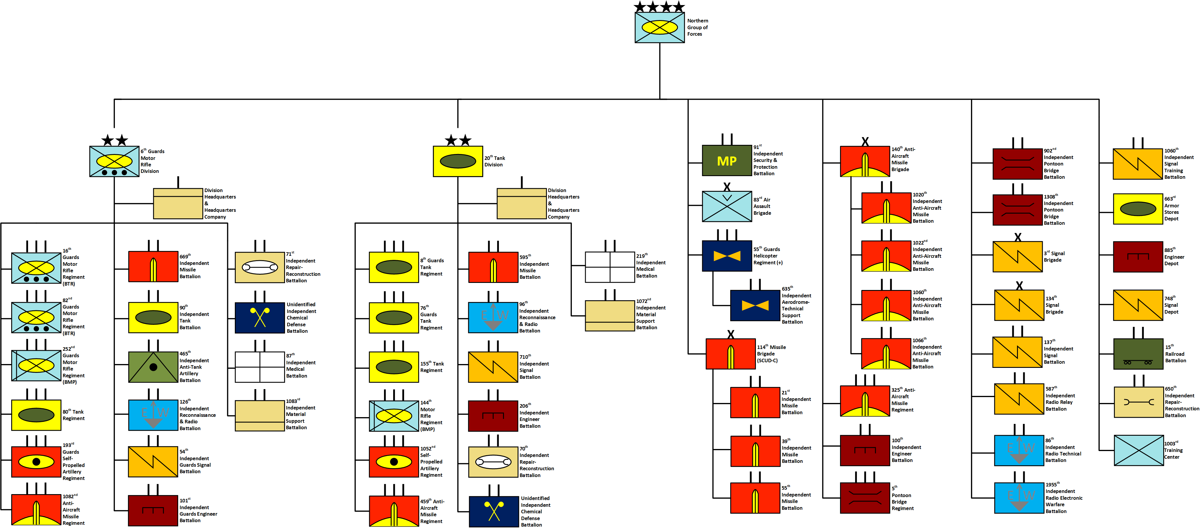 Organization of Soviet Group of Forces North as of 1988